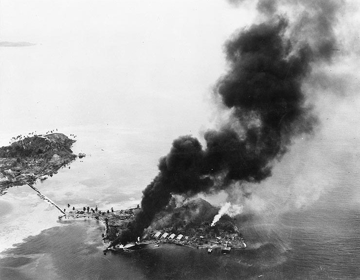 Guadalcanal-Tulagi Landings, 7-9 August 1942: Fires burning among Japanese facilities and seaplanes on Tanambogo Island, east of Tulagi, on the invasion's first day, 7 August 1942. This view looks about SSW, with Gavutu Island to the left, connected to Tanambogo by a causeway.